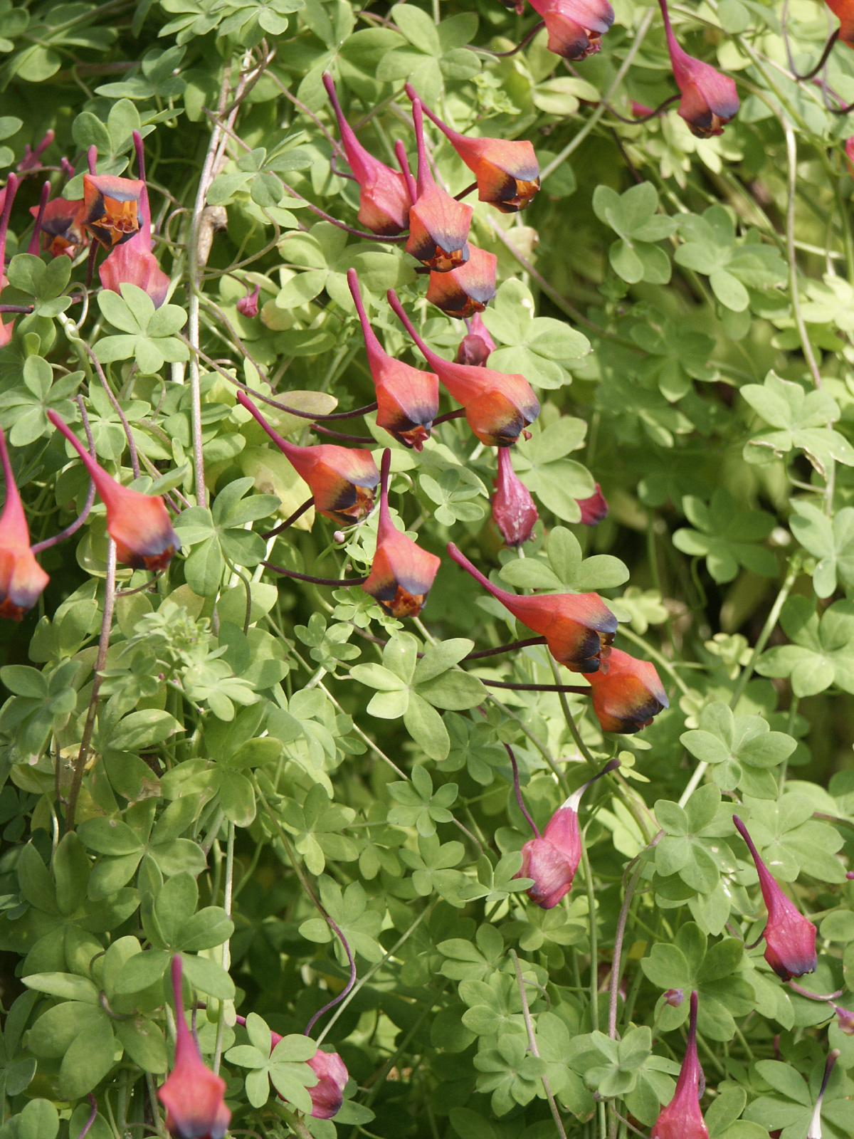 Tropaeolum tricolor at Royal Botanic Gardens, Kew, UK